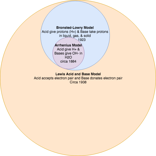 Showing Lewis as superset Acid Base Reaction Model with Bronsted-Lowry and Arrhenius as nested subset models that compliment each other as they get more restrictive in their definition.